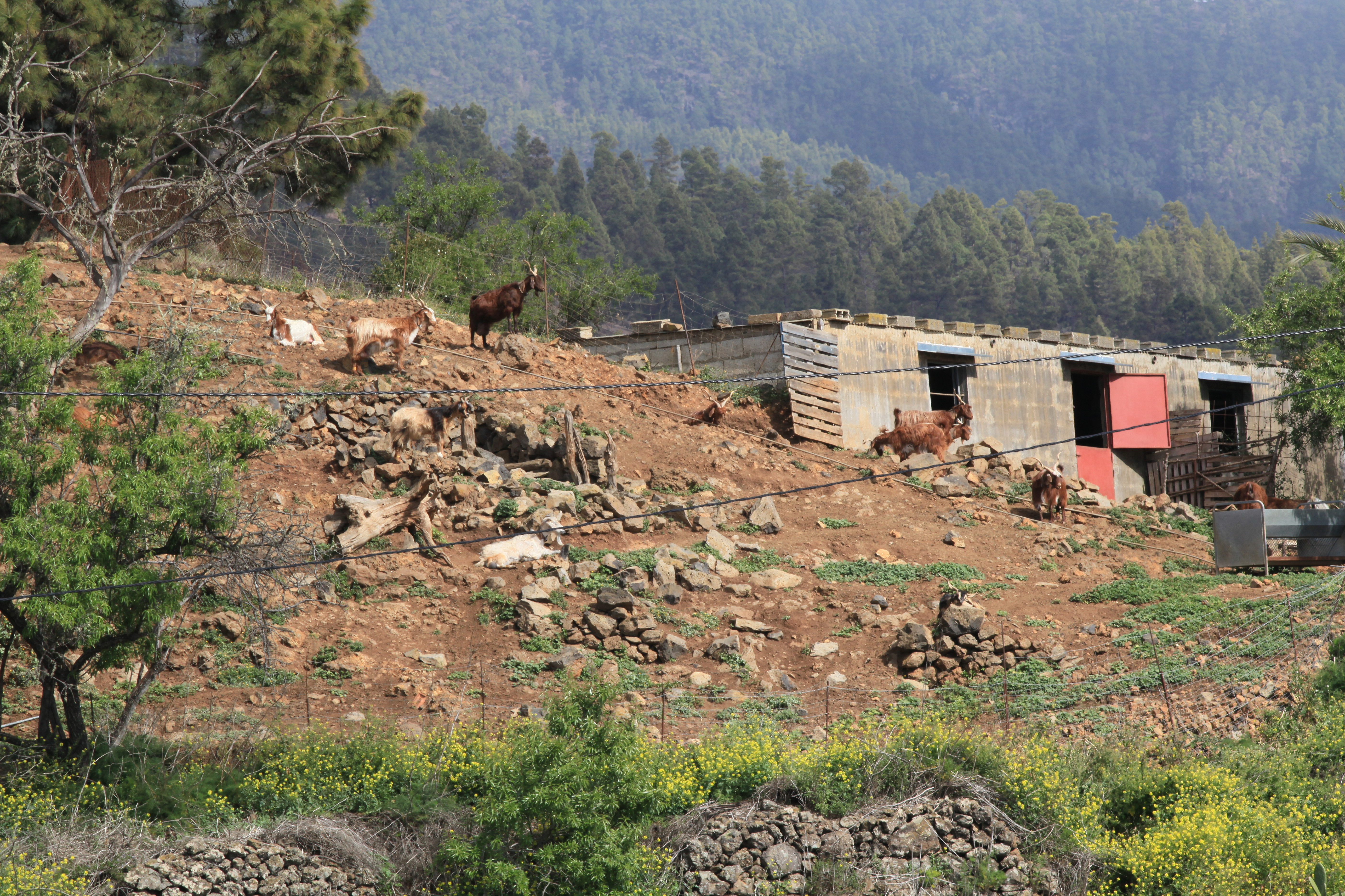 View from Mirador de La Murella to Tijarafe, La Palma, Canary Island, Spain